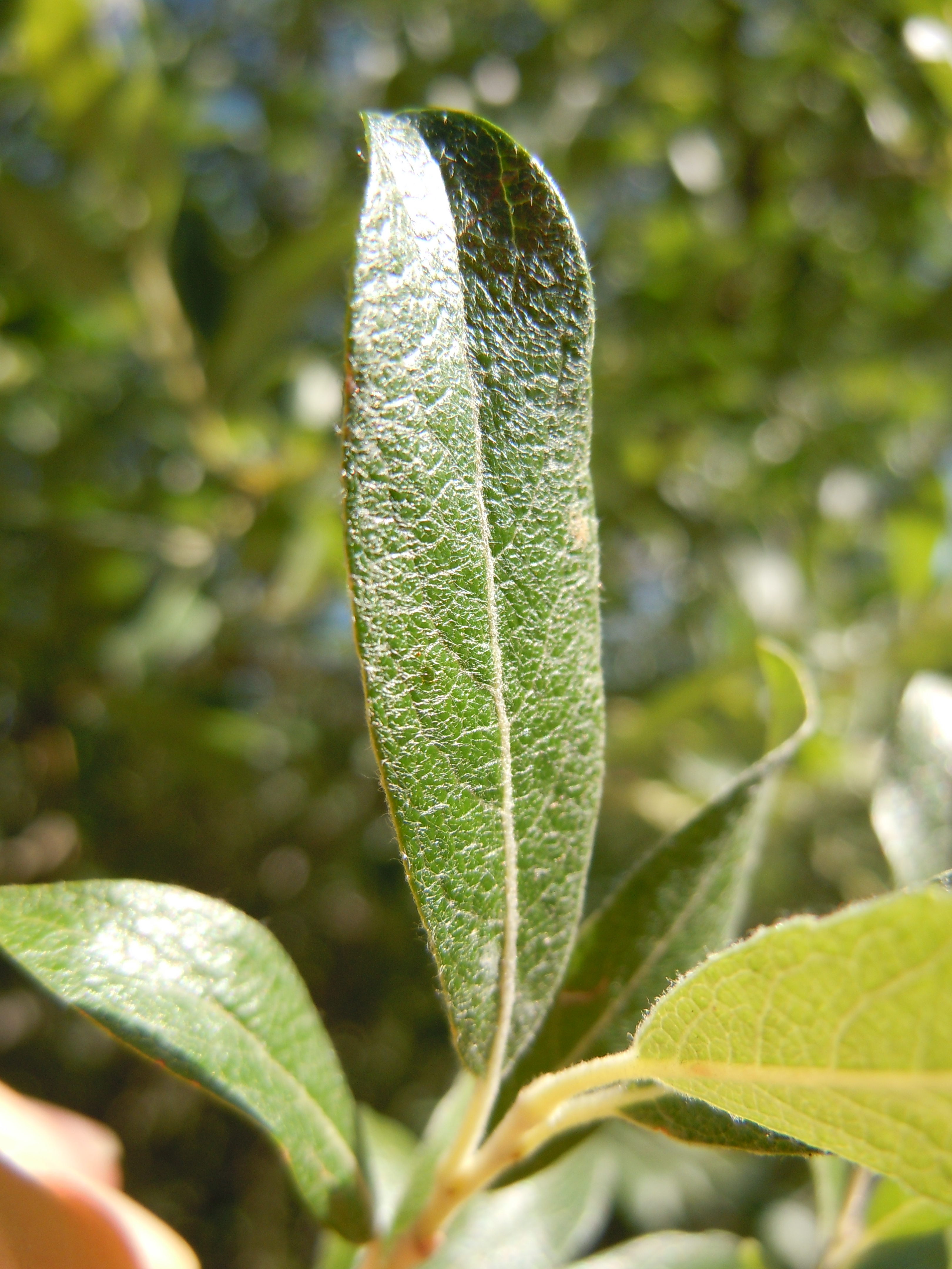 The leaves are characteristically whitish and prominantly reticulate-veined on the lower surface and green on the upper surface.